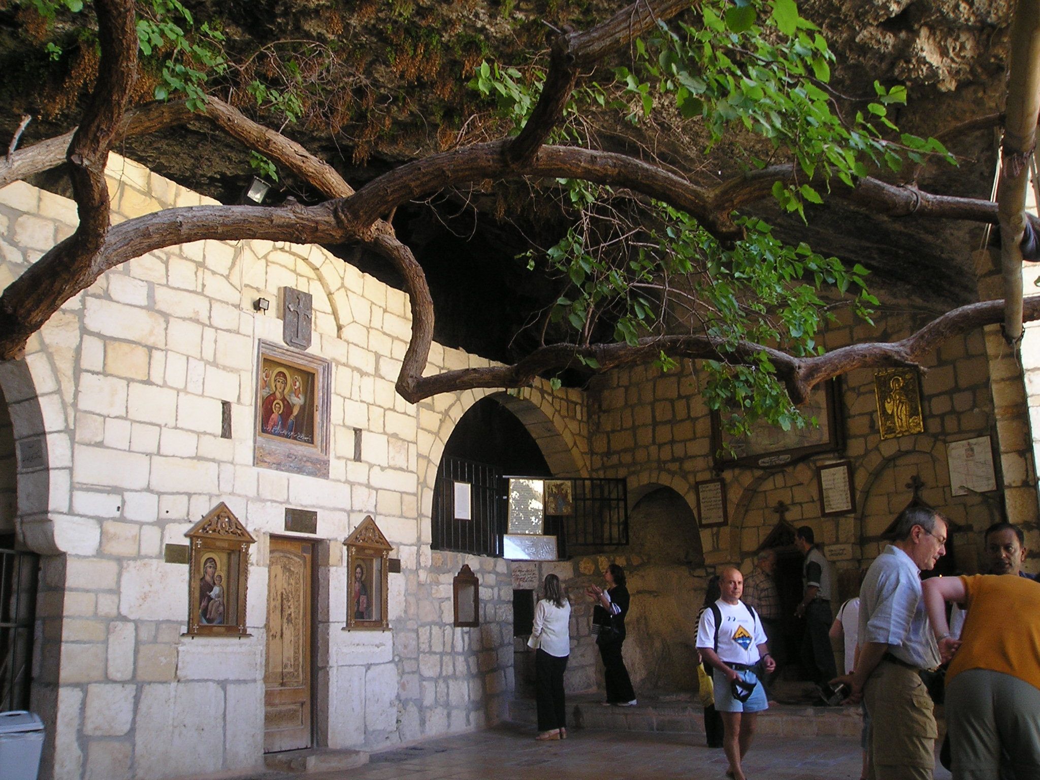 Maaloula, Syria - inside the shrine of Saint Thecla, just above the monastery. Photography is obviously not forbidden but there were always just too many tourists inside.